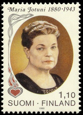 Postage stamp portraying the Finnish novelist and playwright Maria Jotuni